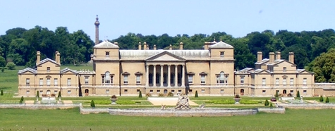 Holkham Hall (south face)